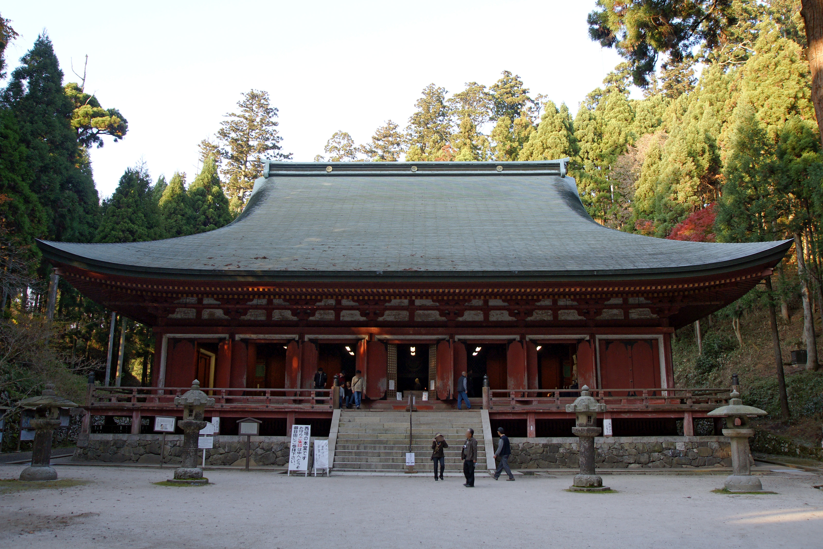 Tenhorindo of Enryakuji Buddhist temple, Otsu, Shiga prefecture, Japan. It was built in 1347.